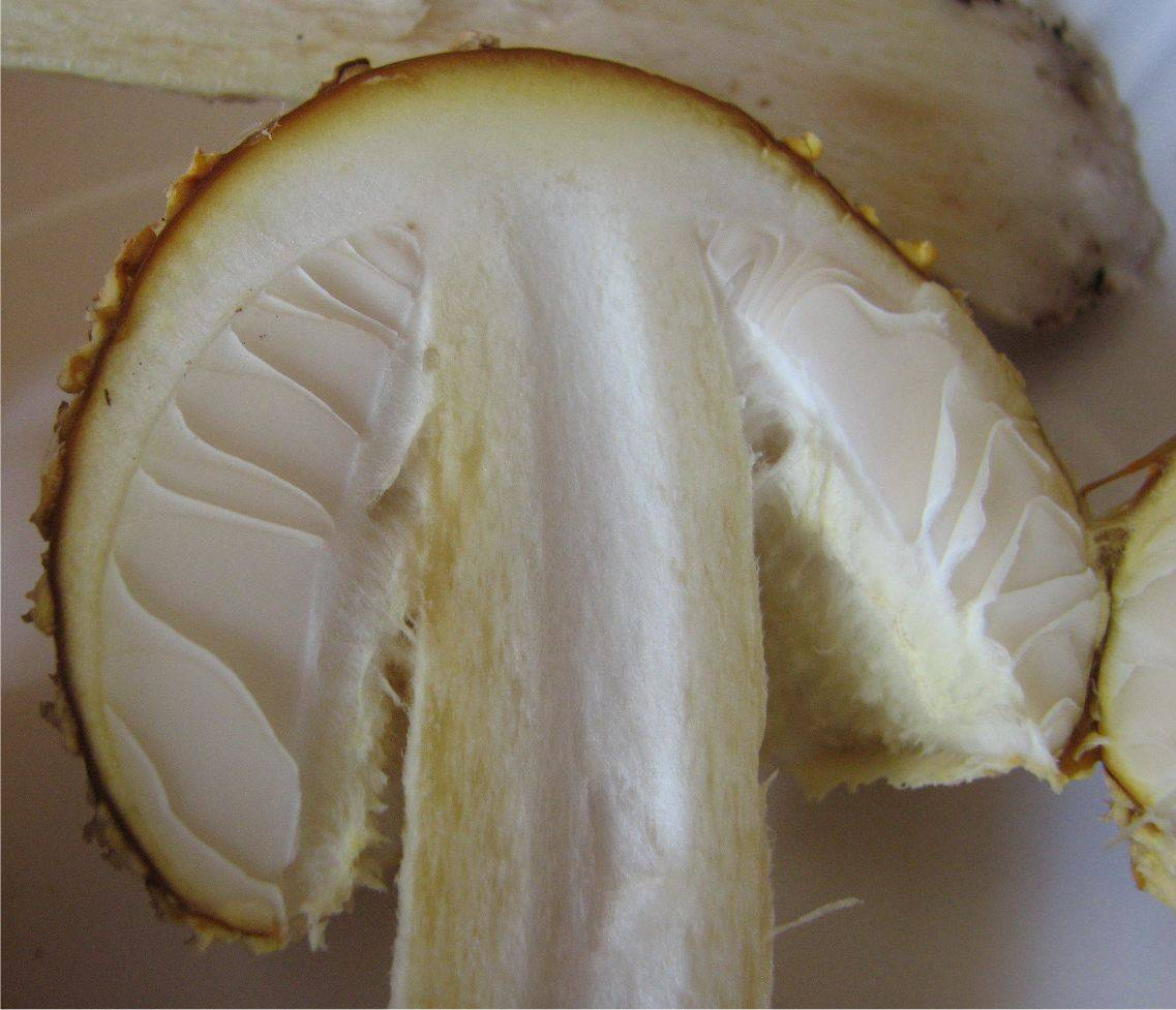 Amanita regalis (Fr. : Fr.) Michael Location: Södra Tresund, Vilhelmina, Lapland, Sweden For more information about this, see the observation page at Mushroom Observer.